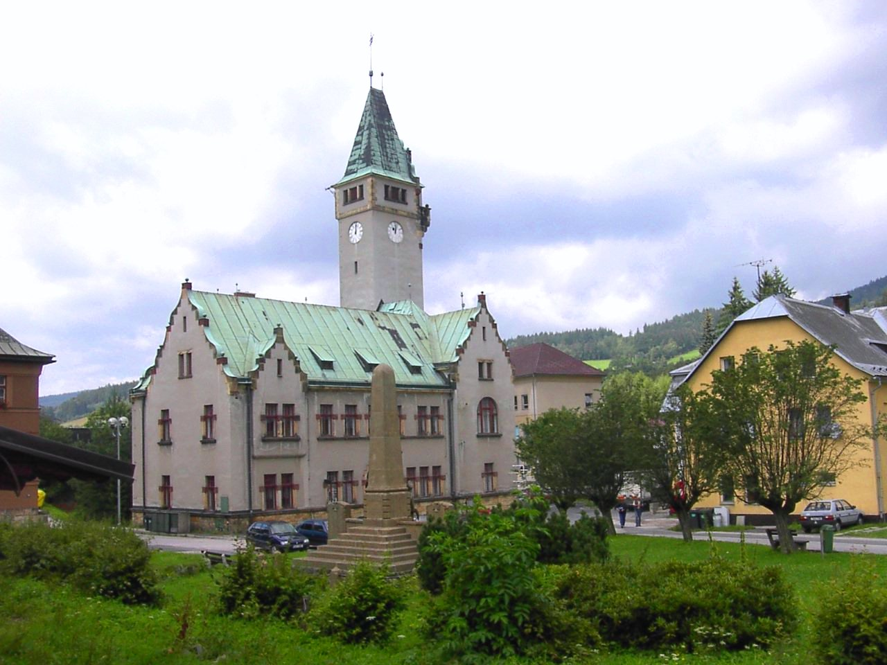 Town hall in Rokytnice nad Jizerou, Czech Republic.